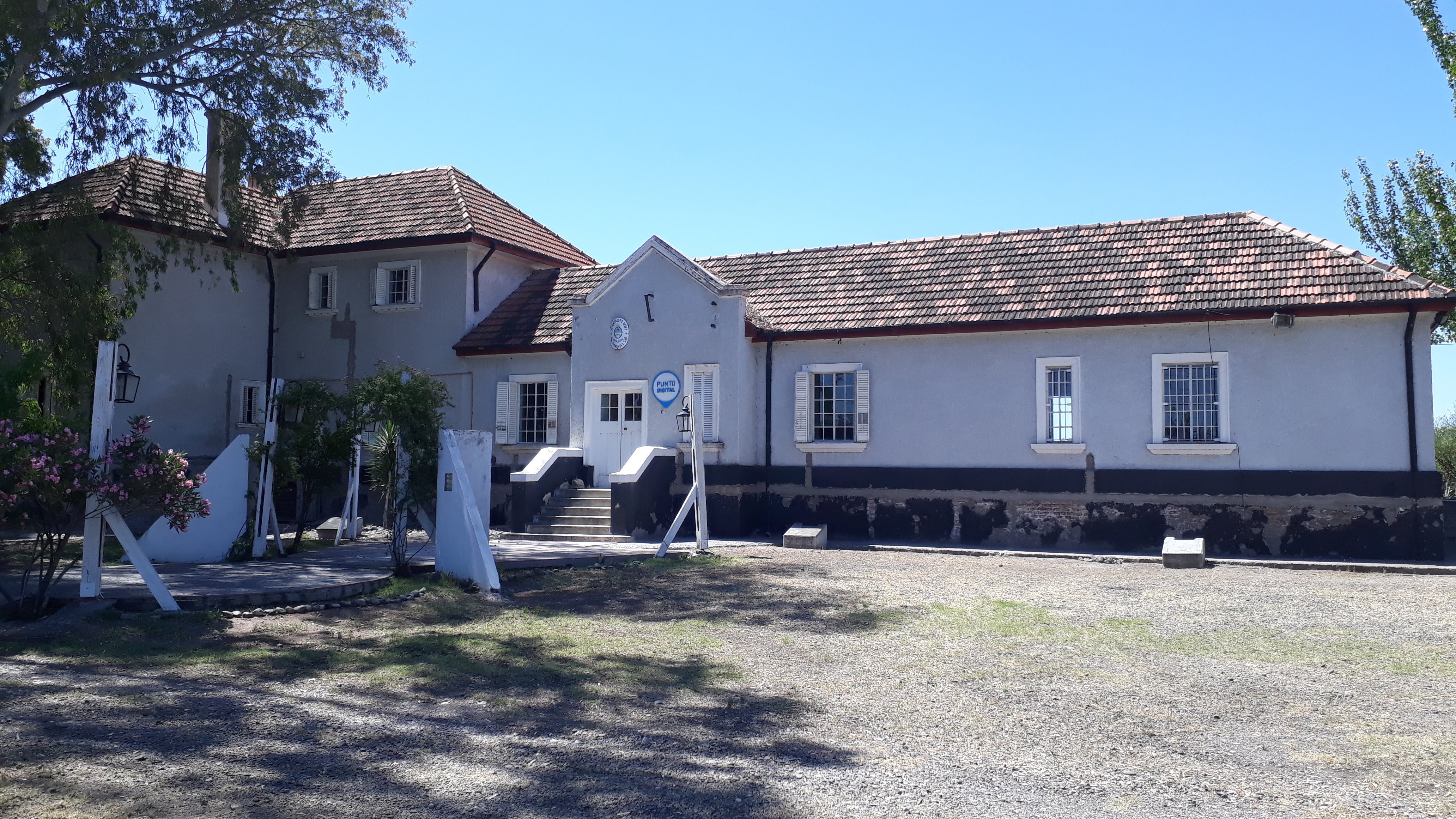 Front view of General Fernández Oro train station.